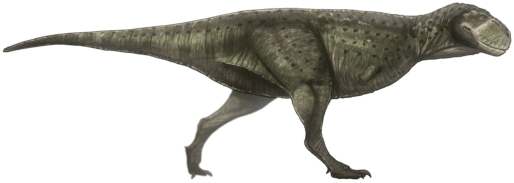 Skorpiovenator bustingorryi.